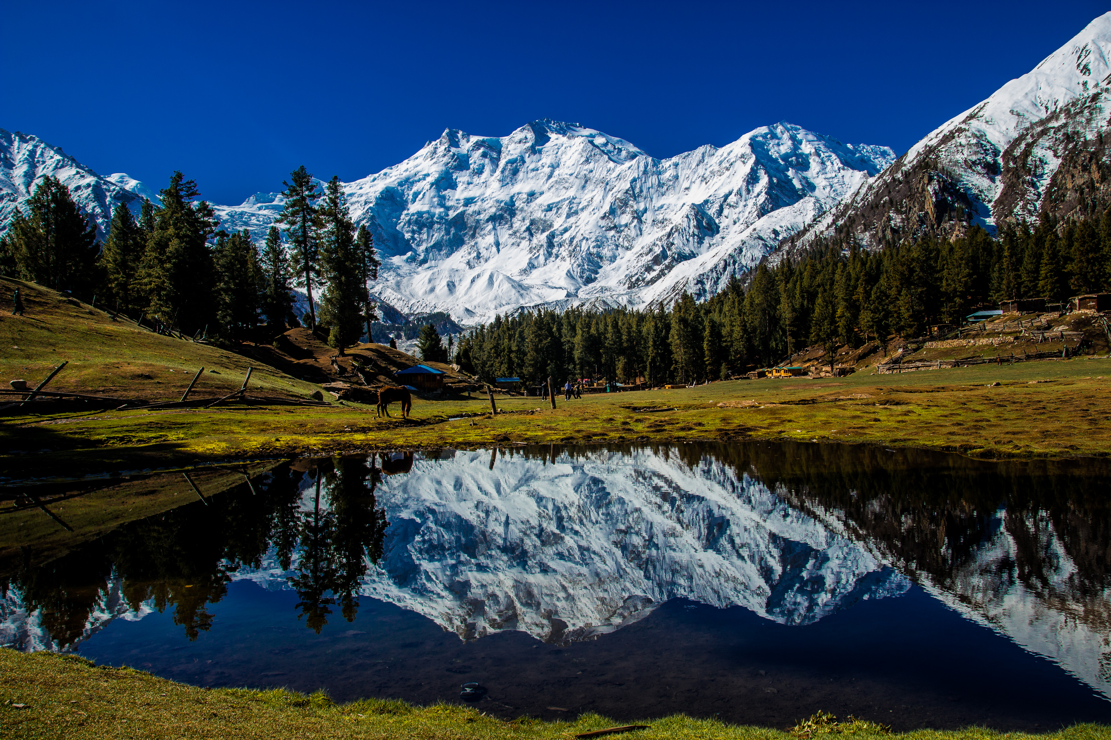 Nanga Parbat is the 9th heighest peak in the world.